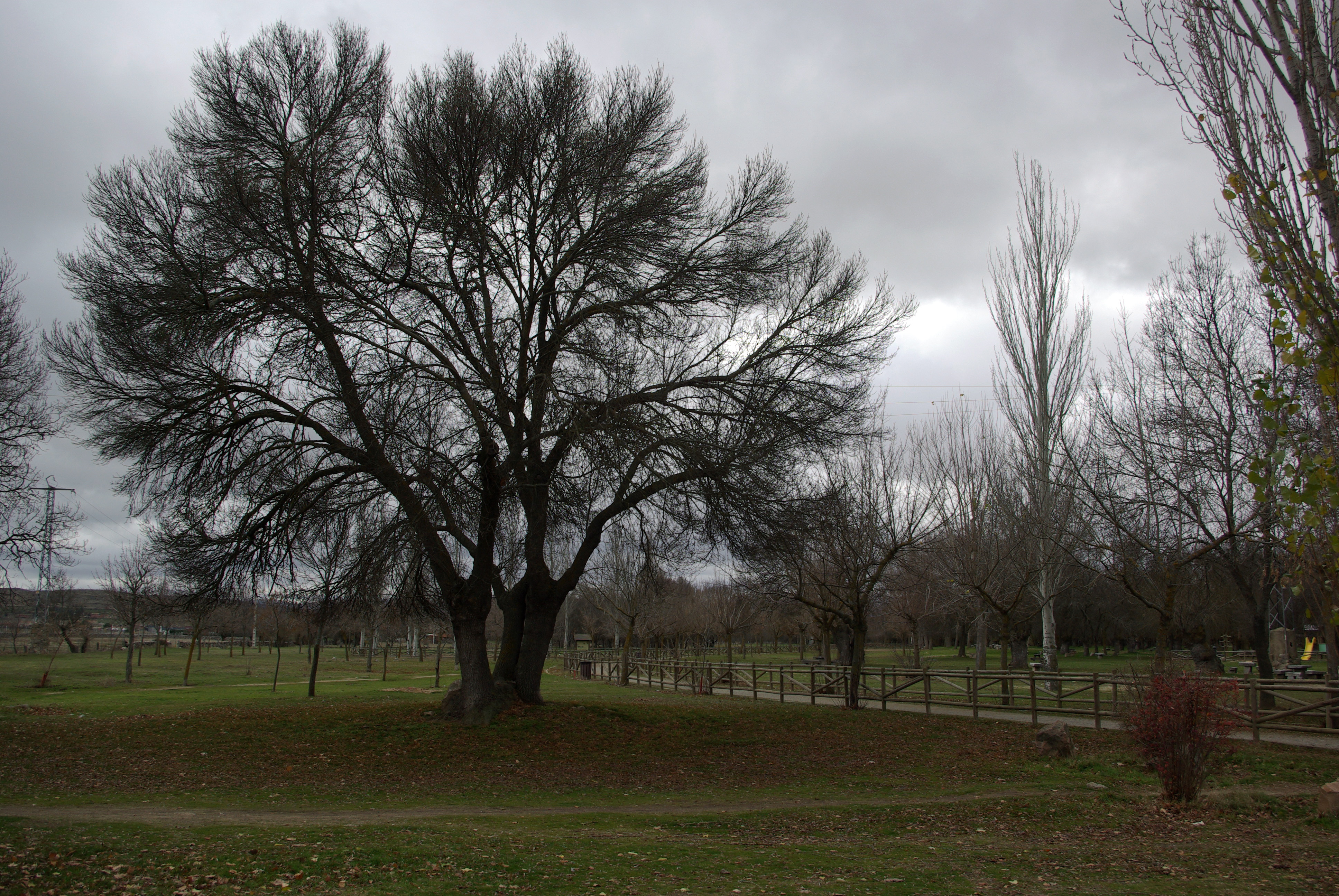 Botanic path in El Soto's Park, Ávila (Ávila, Spain), with a Narrow-leafed Ash (Fraxinus angustifolia) in winter.